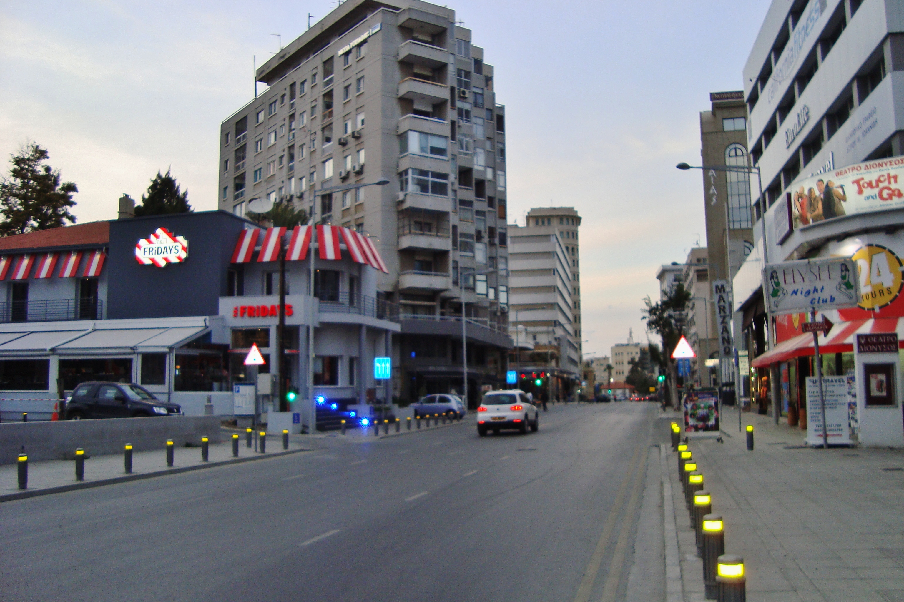 Themistokli dermi avenue in the European city of Nicosia Cyprus